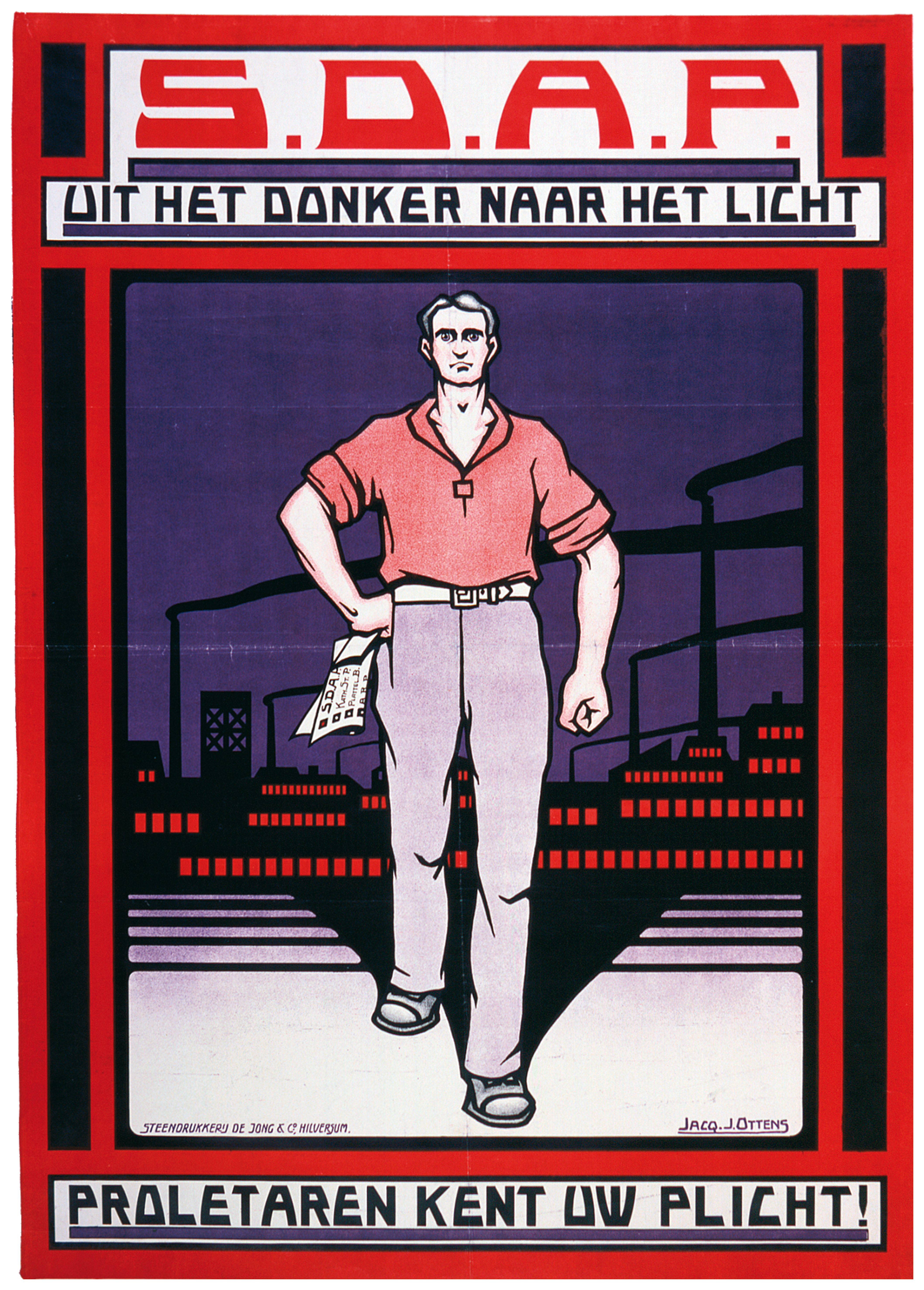 Poster used in the 1925 general elections by the SDAP